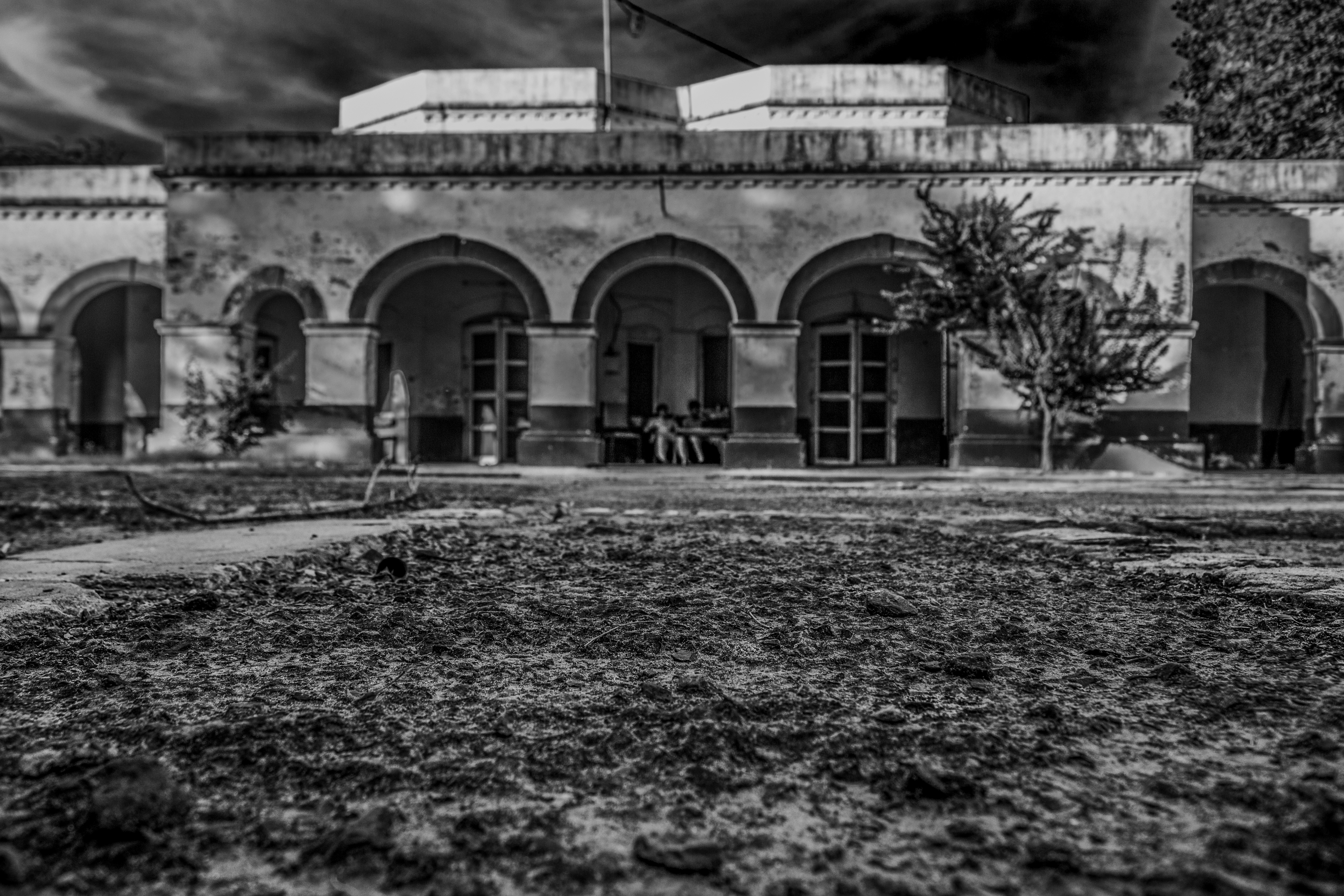 19th Century House made my British Government in heart of City Sargodha, District Sargodha, Punjab, Pakistan (PS: My Home)